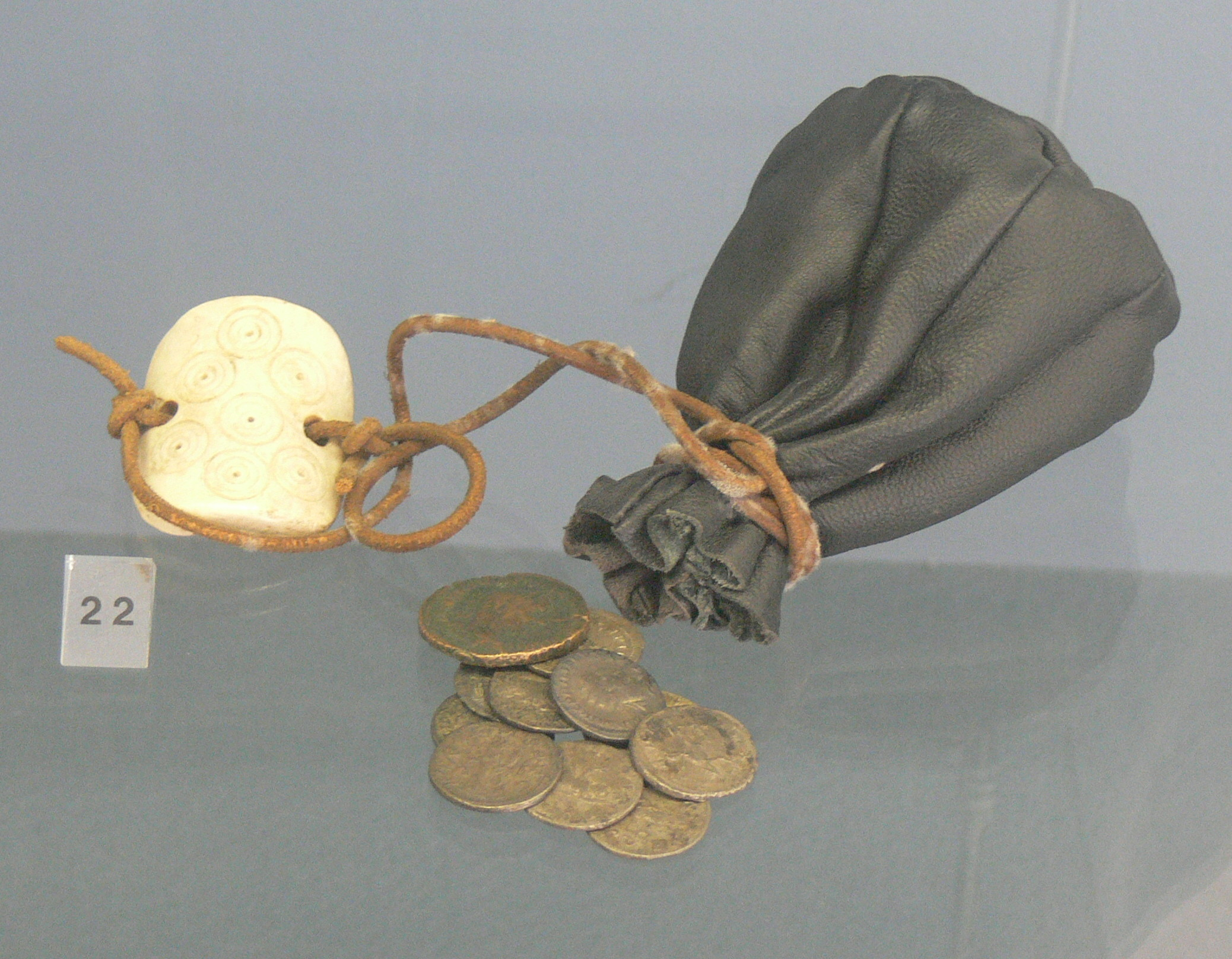 Enns ( Upper Austria ). Museum Lauriacum: Model of an ancient Roman leather purse.